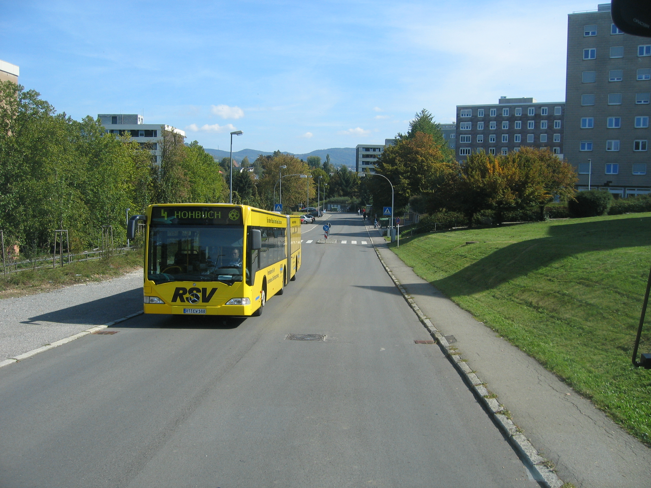 Bus 4 towards Hohbuch on Pestalozzistrasse in Reutlingen, Germany.